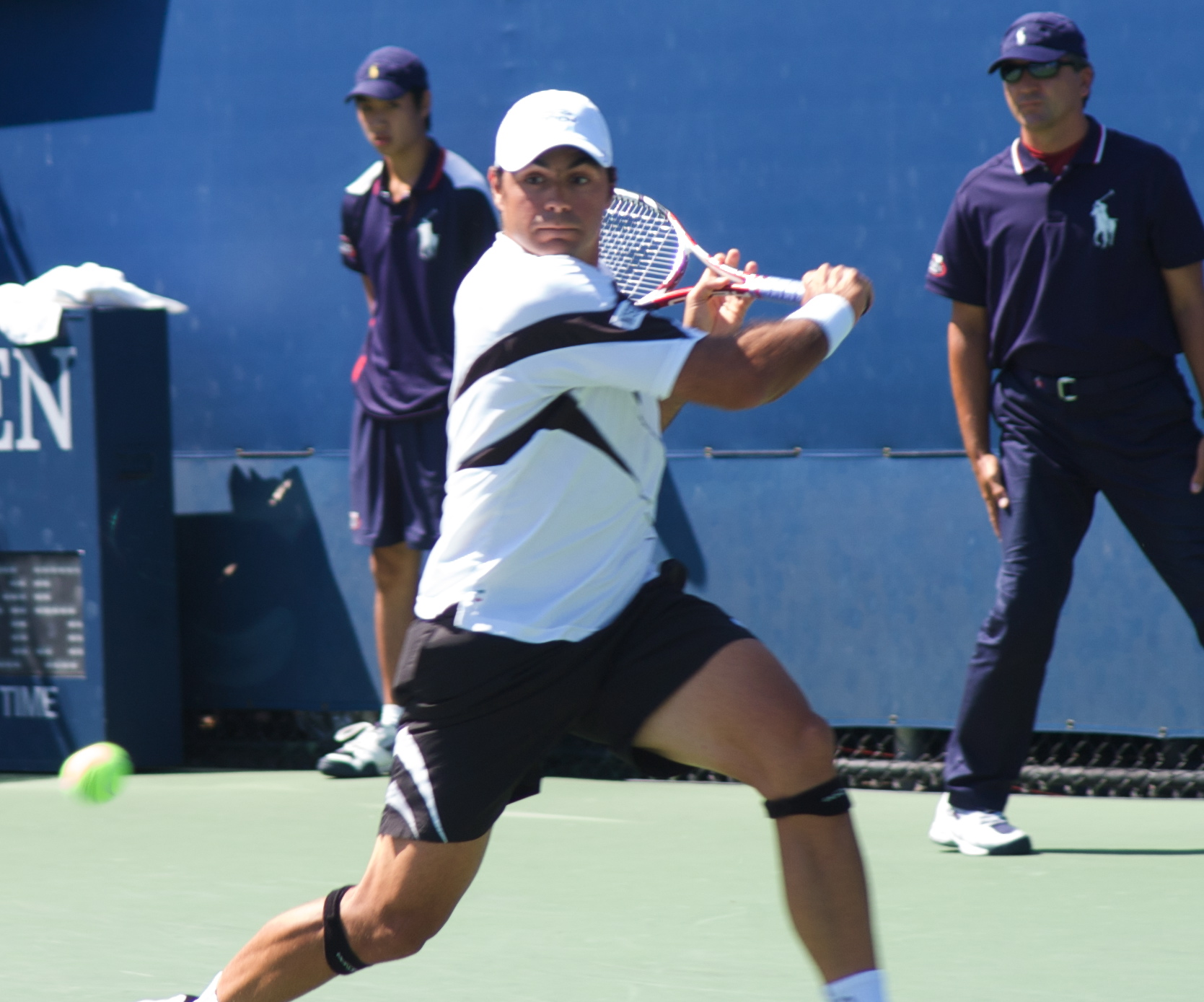 Ivan Navarro at the 2008 U.S. Open (tennis)